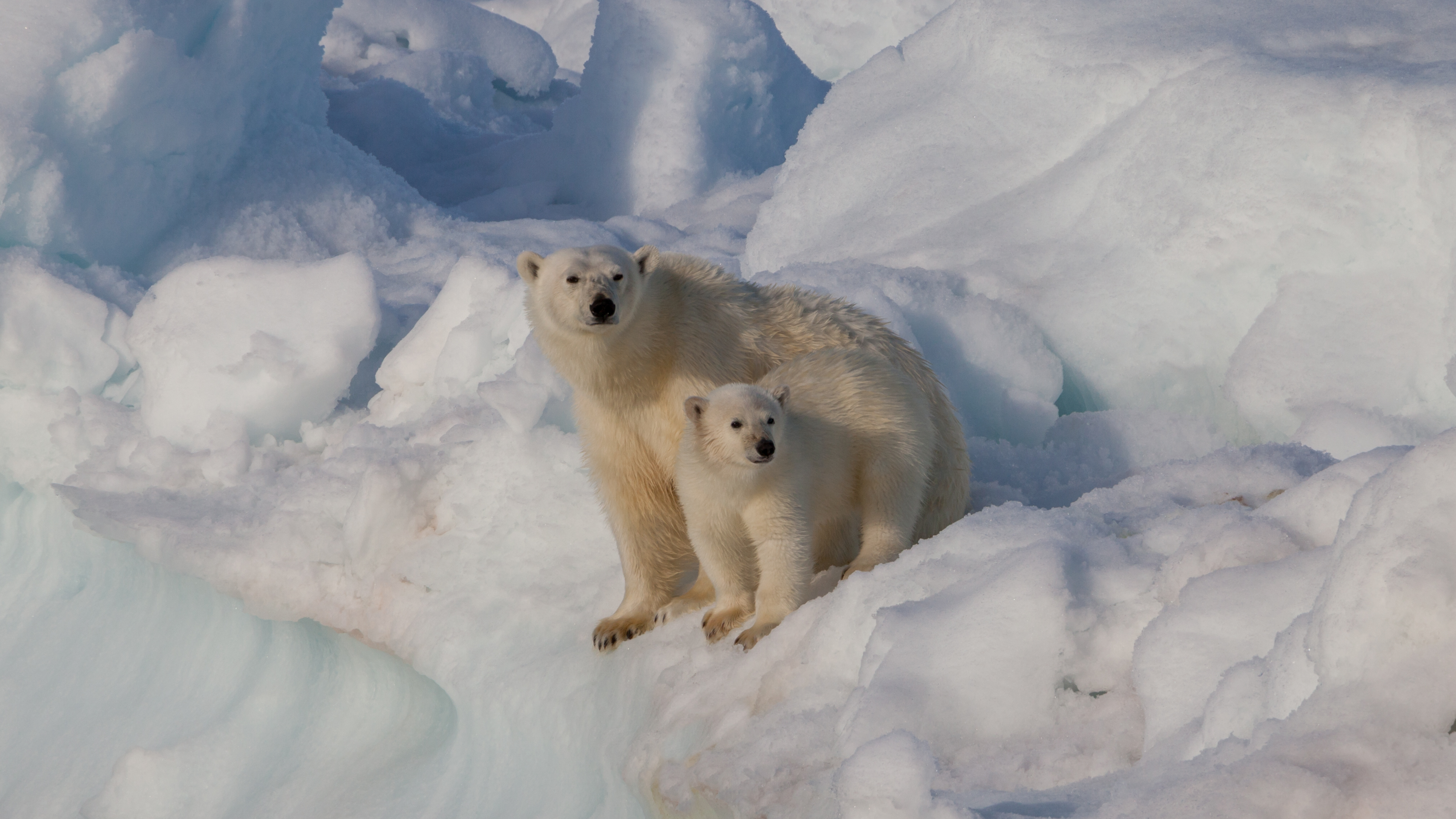 A female polar bear Ursus maritimus and its cub on dense drift ice in Hinlopen strait, Svalbard. Both, mother and cub look well-fed and healthy since they obviously succeded reaching the northern drift ice in spring in due time.